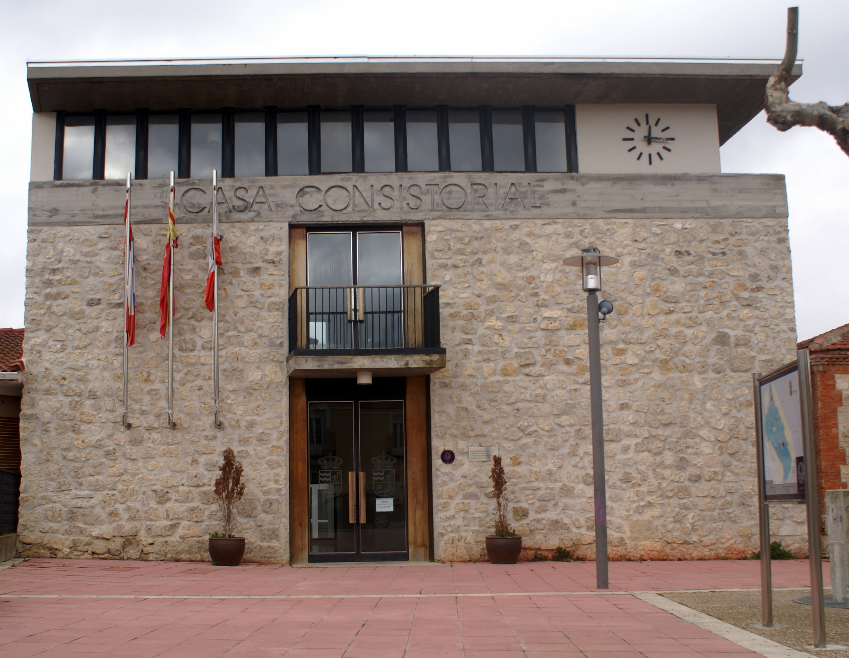 Town hall of Corcos del Valle, Valladolid, Spain.